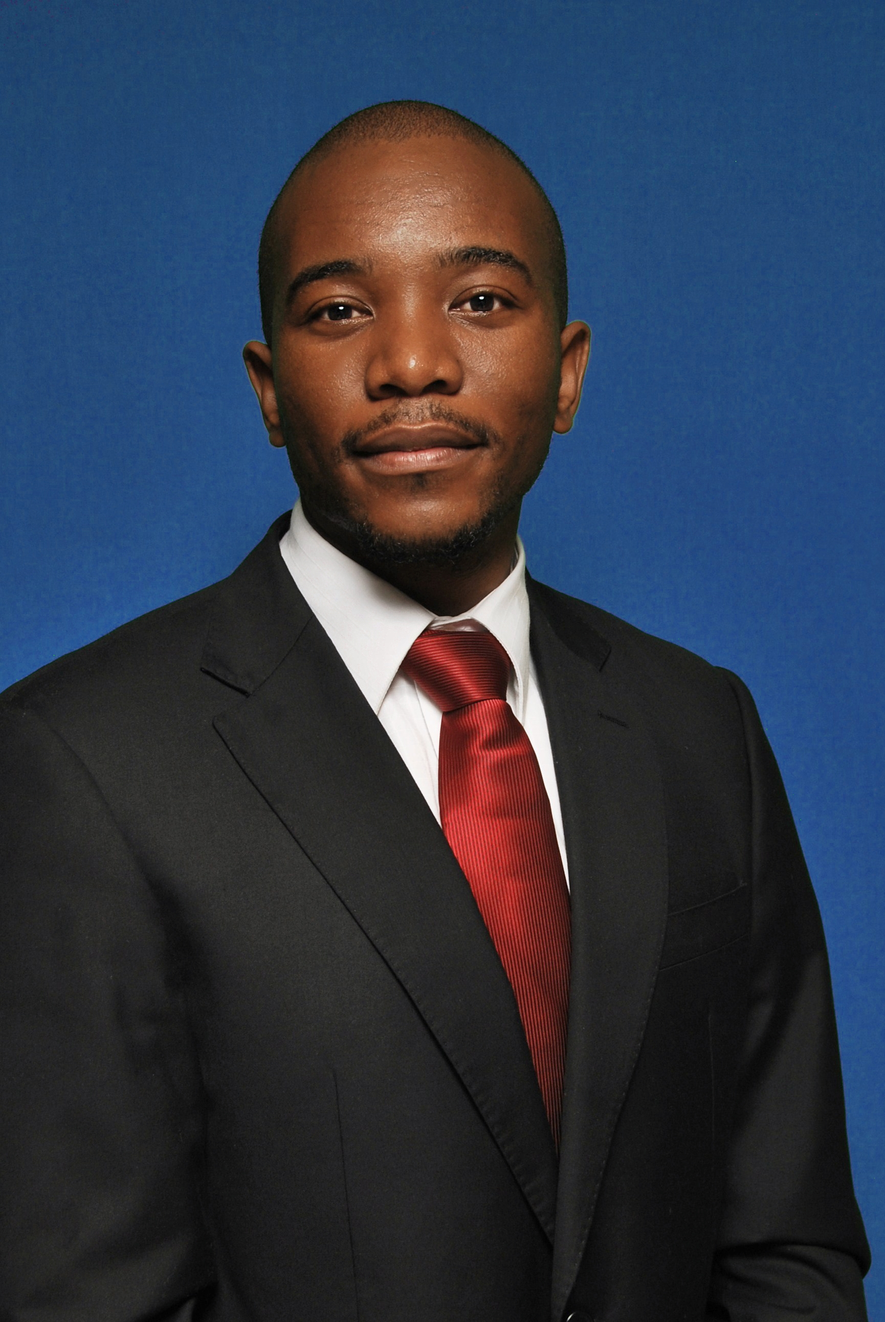 Mmusi Maimane